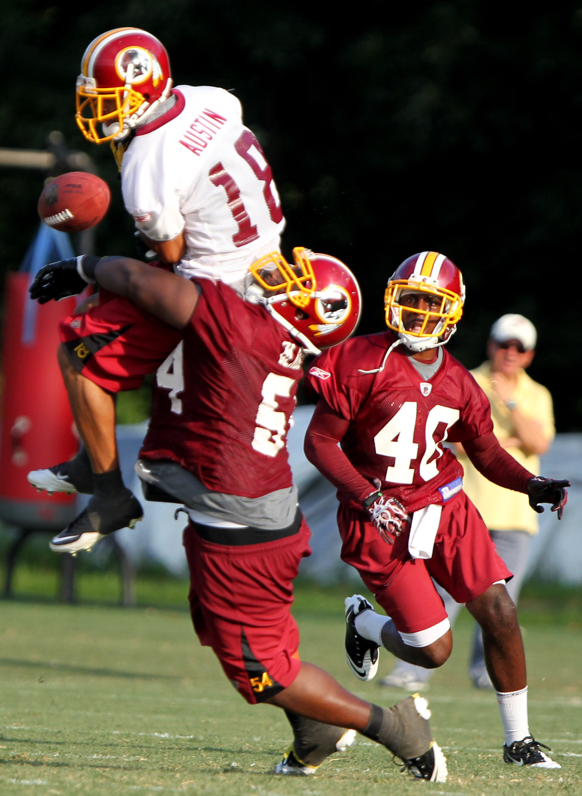 Washington Redskins Training Camp August 4, 2011